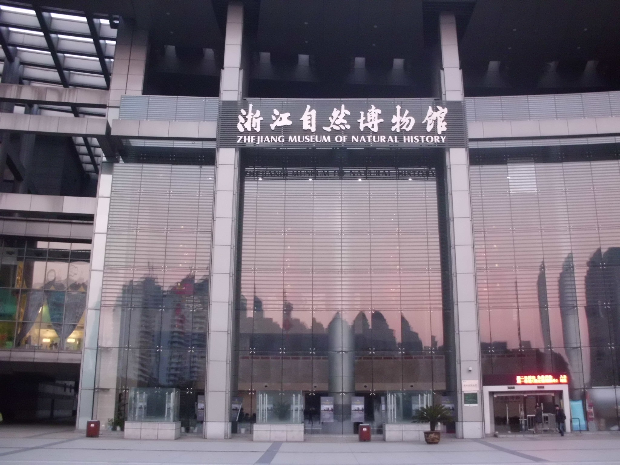 Westlake Cultural Square